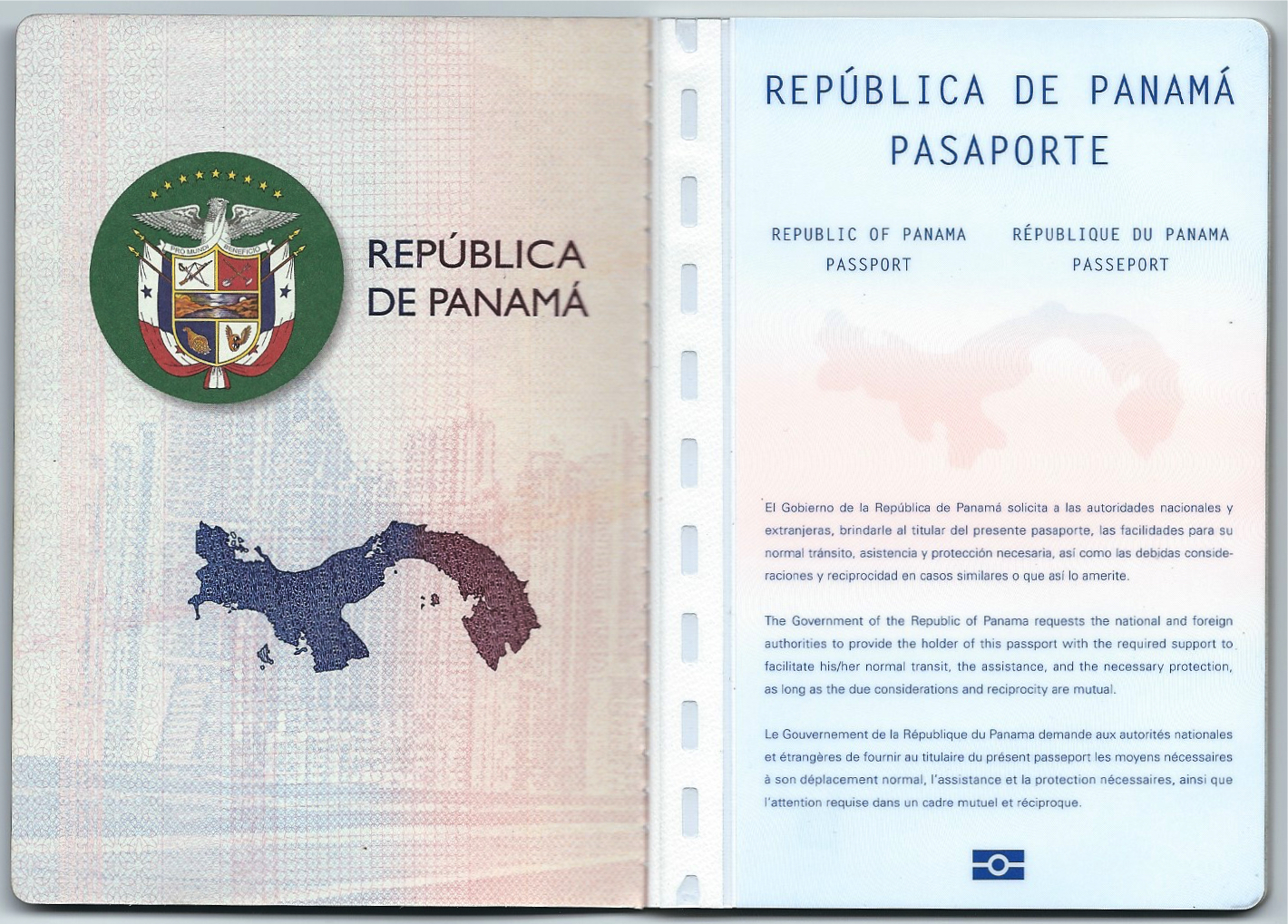 First Page of a Panamanian Bio-metric Passport